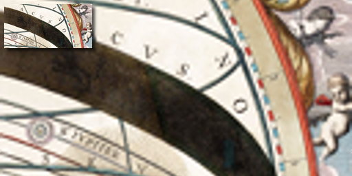 Image resampling using a separable Catmull-Rom filter